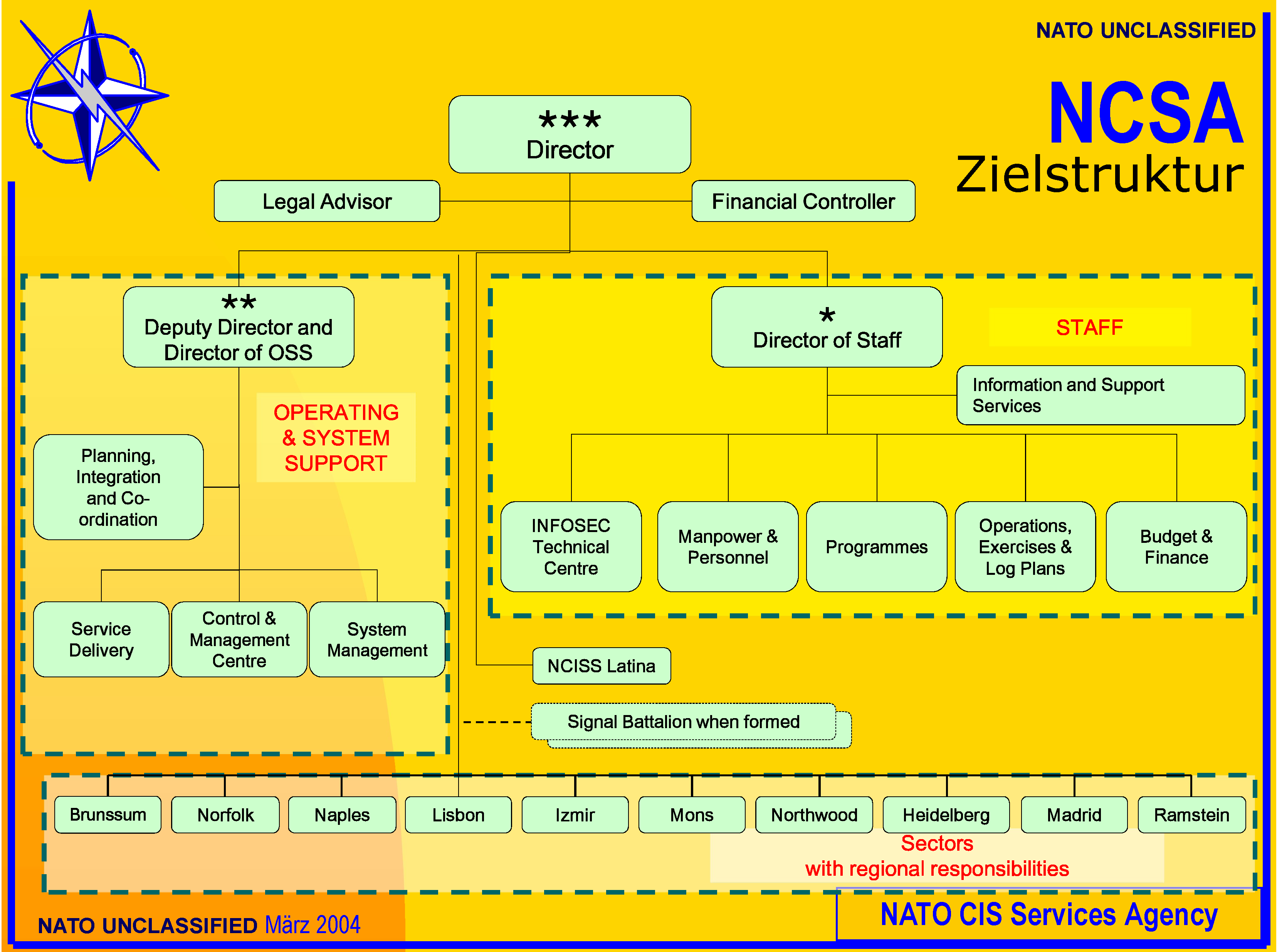 NCSA Target Organization as of March 2004